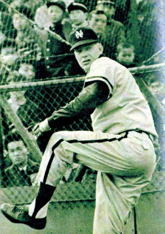 Joe Stanka